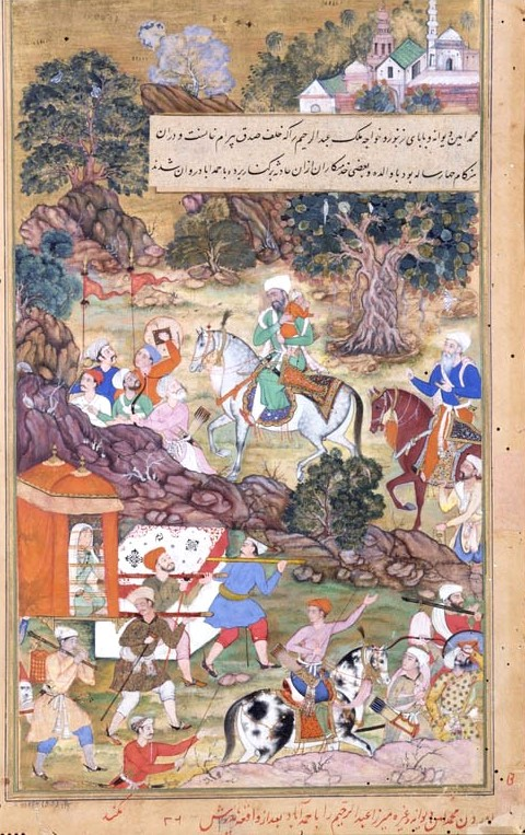 Bairam Khan's widow and child (Abdul Rahim Khan-I-Khana) are escorted to Ahmedabad, after assasination of Bairam Khan in 1561, Akbarnama.